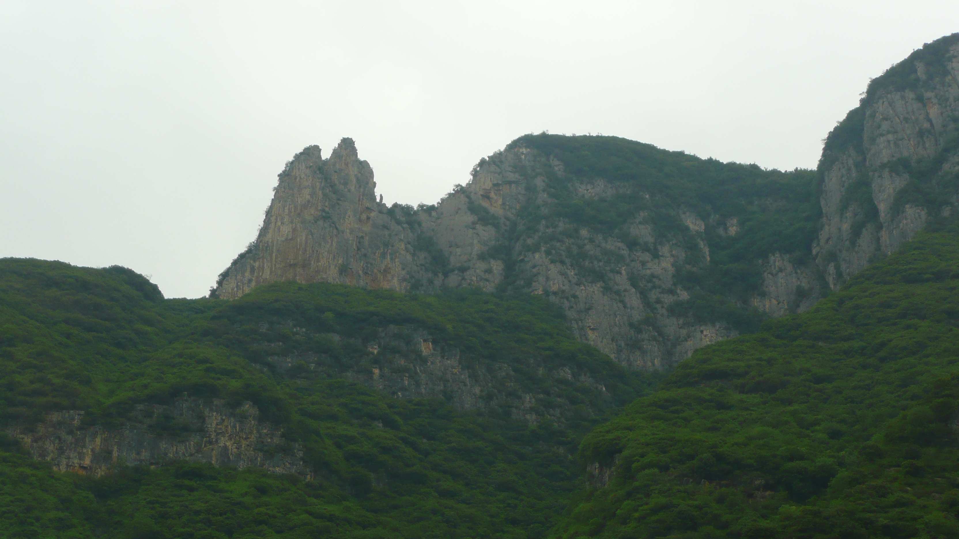 "Goddess Peak" in the Wu Gorge (Yangtze)